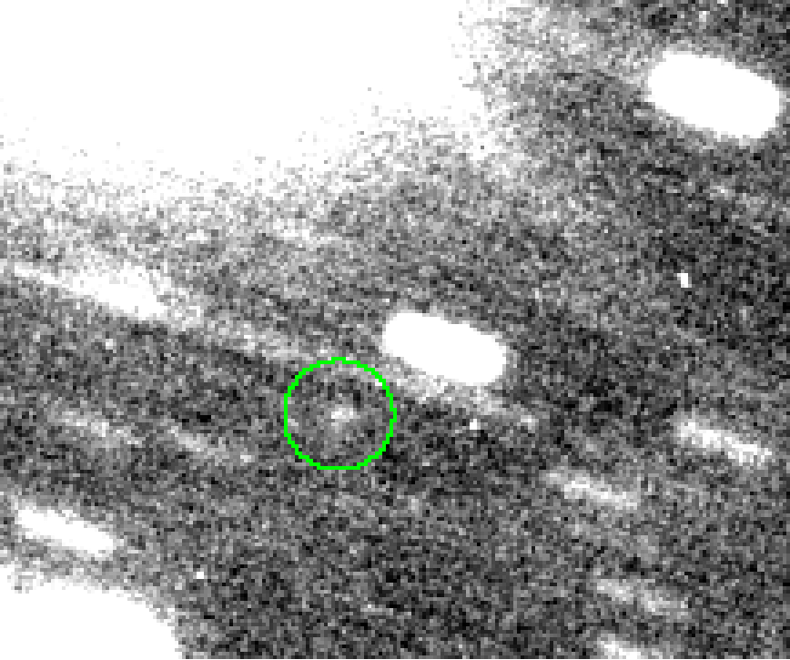 The satellite S/2001 U 3 (Francisco) is indicated by the circle in this image. The elongated features are stars that have been smeared out by the shifting process used to identify the moon. [North is Left, East is up]